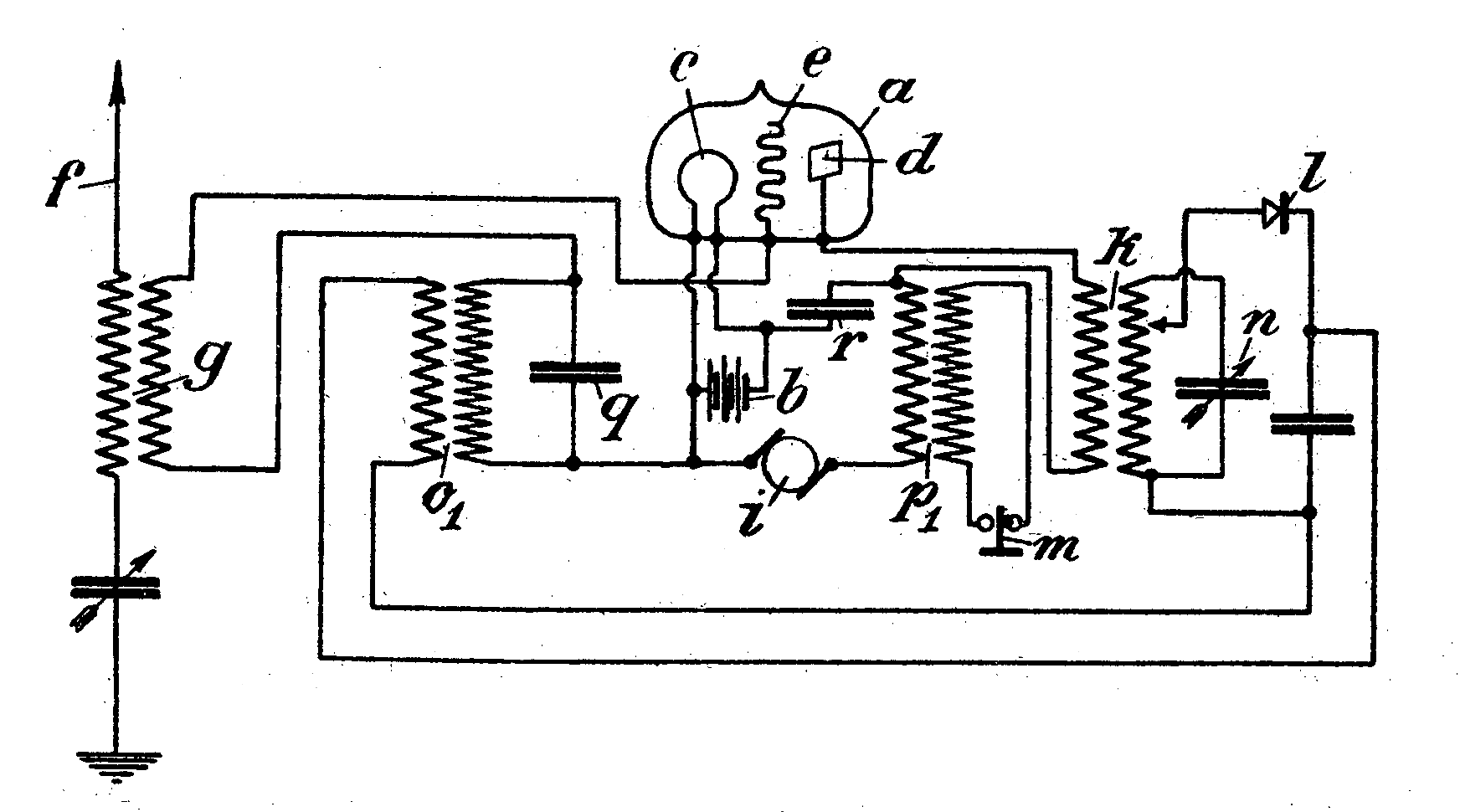 Circuit of a vacuum tube reflex radio receiver invented by German scientists Wilhelm Schloemilch and Otto von Bronk, from their 1914 patent. The unique feature of the reflex receiver is that the same vacuum tube is used to amplify the radio current and the audio current from The radio signal from the tuned circuit is amplified by the tube and the amplified signal is applied to a crystal detector. The detector extracts the audio (sound) modulation from the radio carrier wave. Then the audio current is applied back into the grid circuit of the tube to be amplified again. The amplified audio is separated from the radio signal by the capacitor and is applied to the earphones. The reflex receiver circuit was used in inexpensive vacuum tube radio receivers during the 1920s and also portable tube radios during the 1930s.